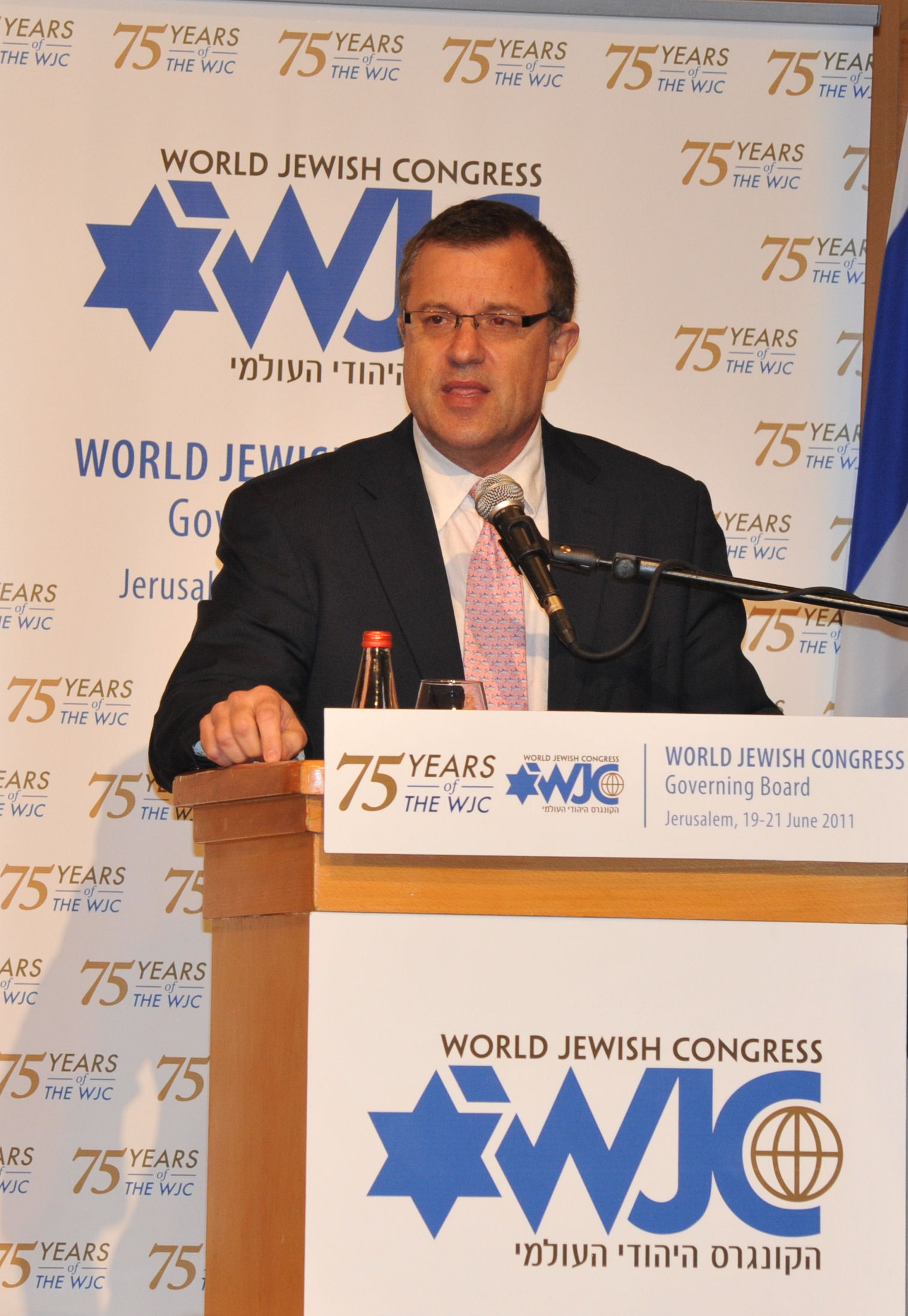 World Jewish Congress Secretary-General Dan Diker speaking at a WJC event in Jerusalem, June 2011